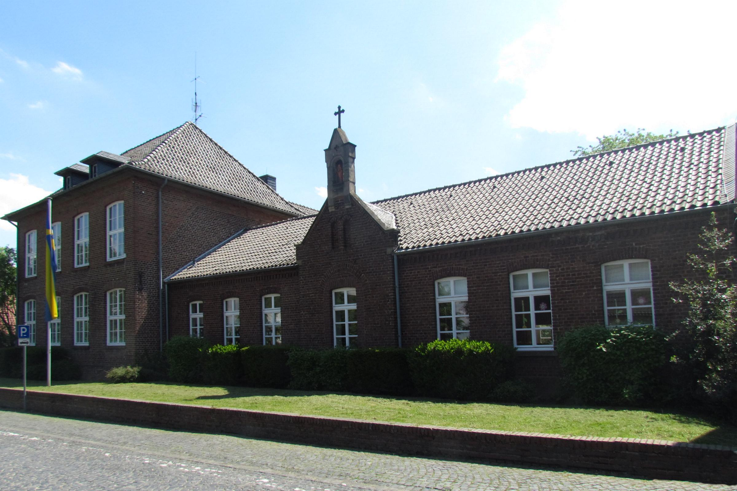 This is a photograph of an architectural monument.It is on the list of cultural monuments of Korschenbroich